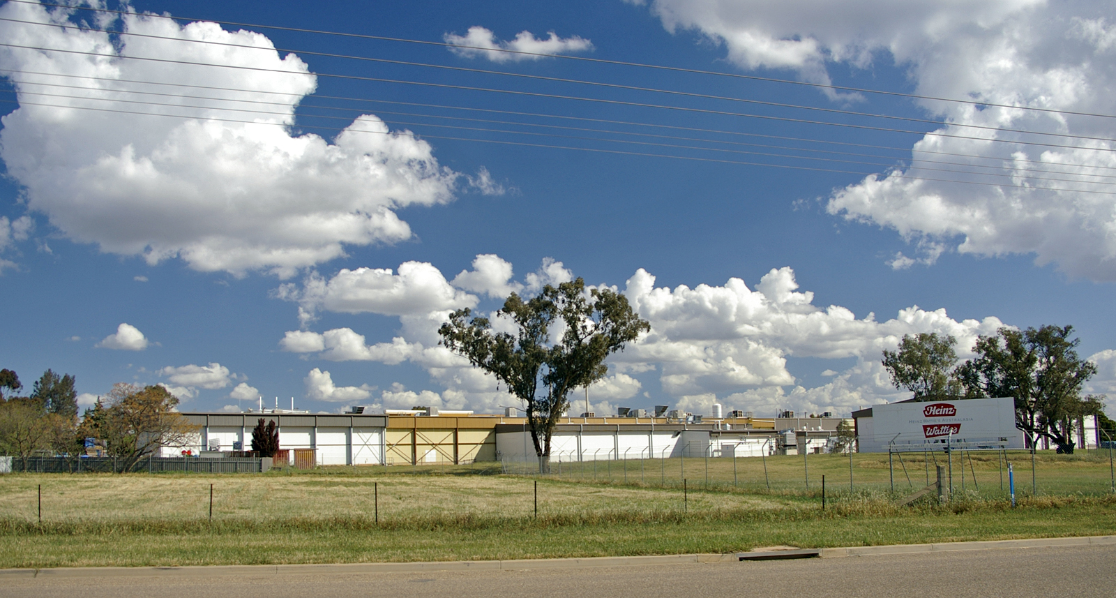 Heinz-Watties factory in the Wagga Wagga industrial suburb of Bomen.